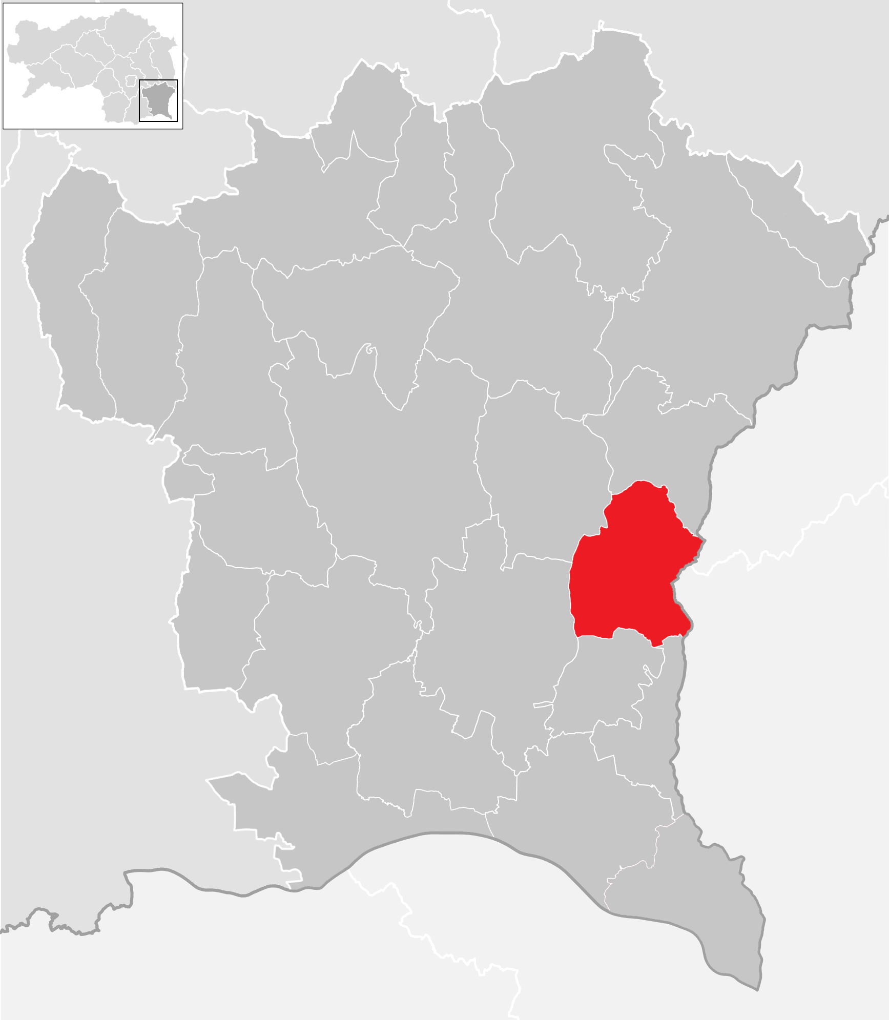 district Südoststeiermark